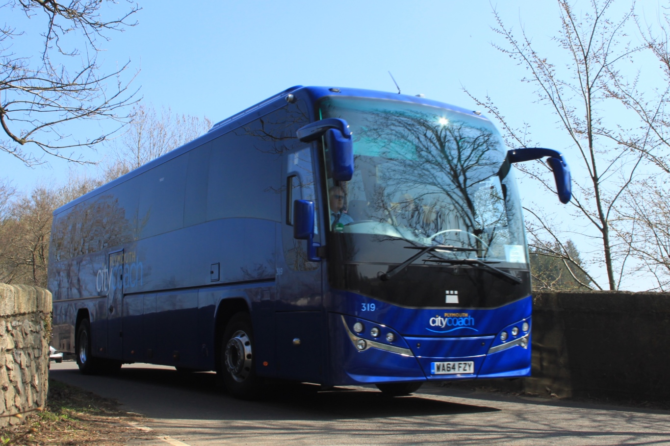 A new Plaxton Panther belonging to Plymouth Citycoach eases itself over Riverford Bridge across the River Dart near Buckfastleigh in Devon. Carrying fleet number 319, it has been registered WA64FZY.